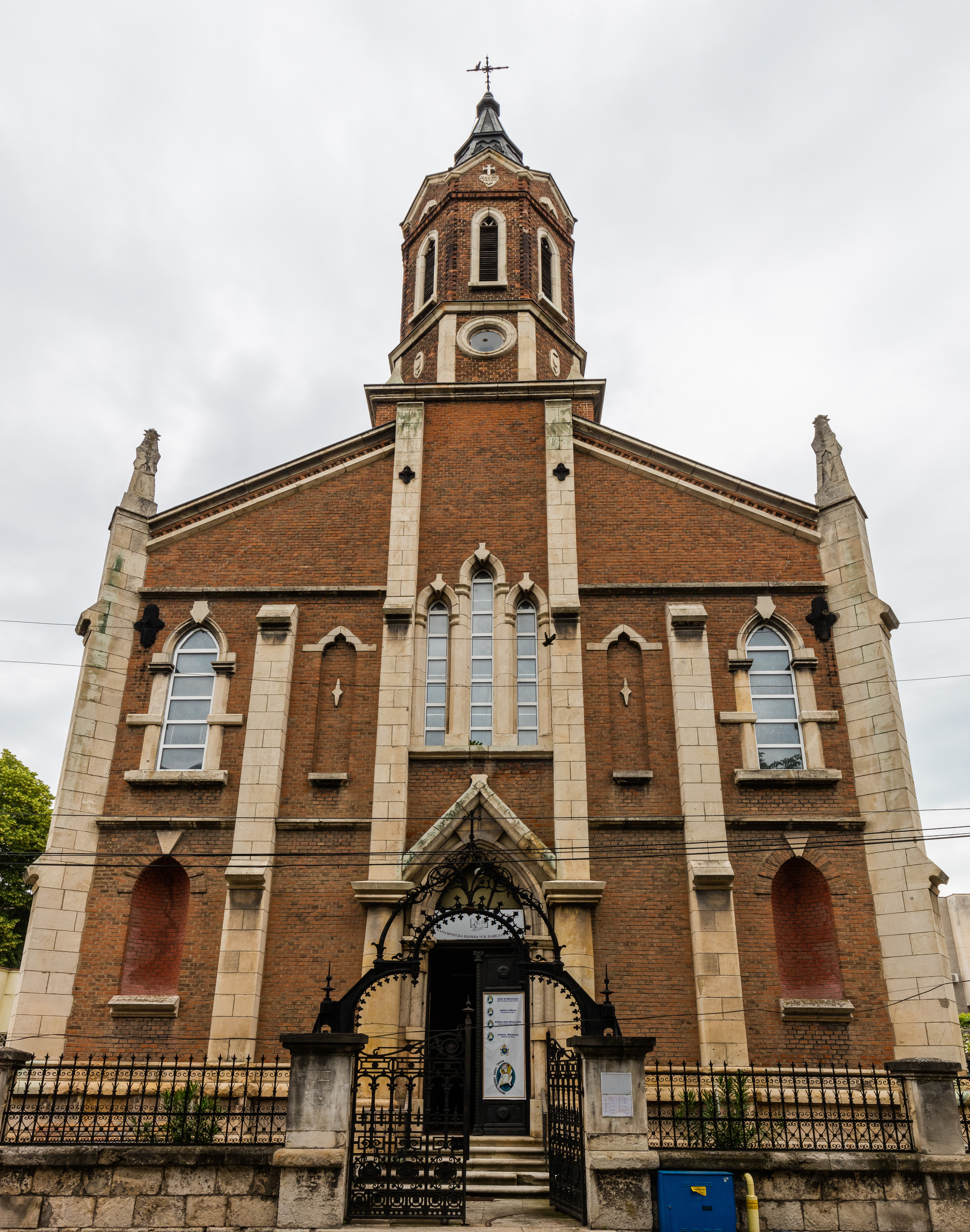 Cathedral of St Paul of the Cross, Rousse, Bulgaria